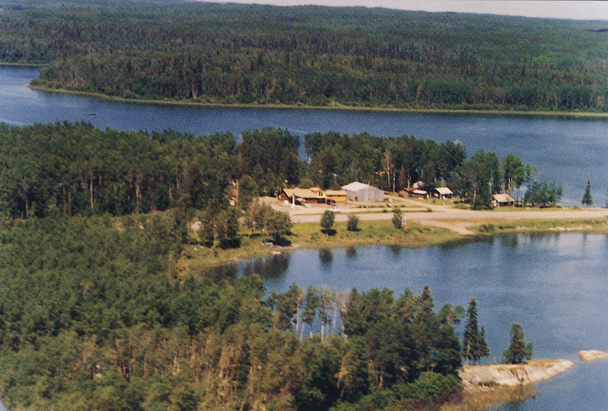 Pawistik Lodge